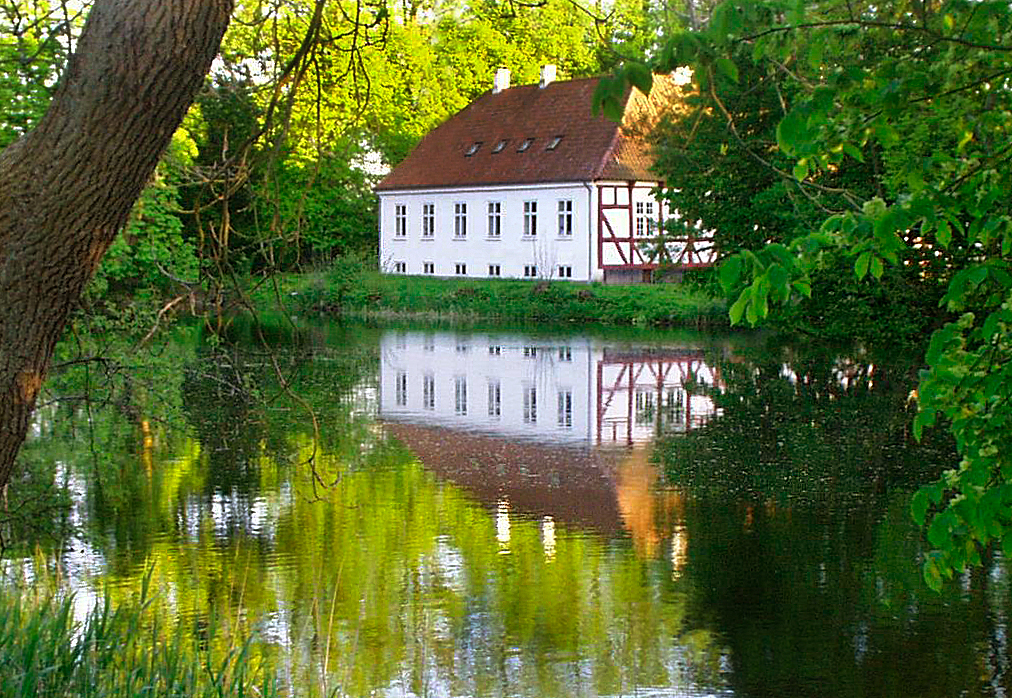 Lindved Manor near Odense, Denmark